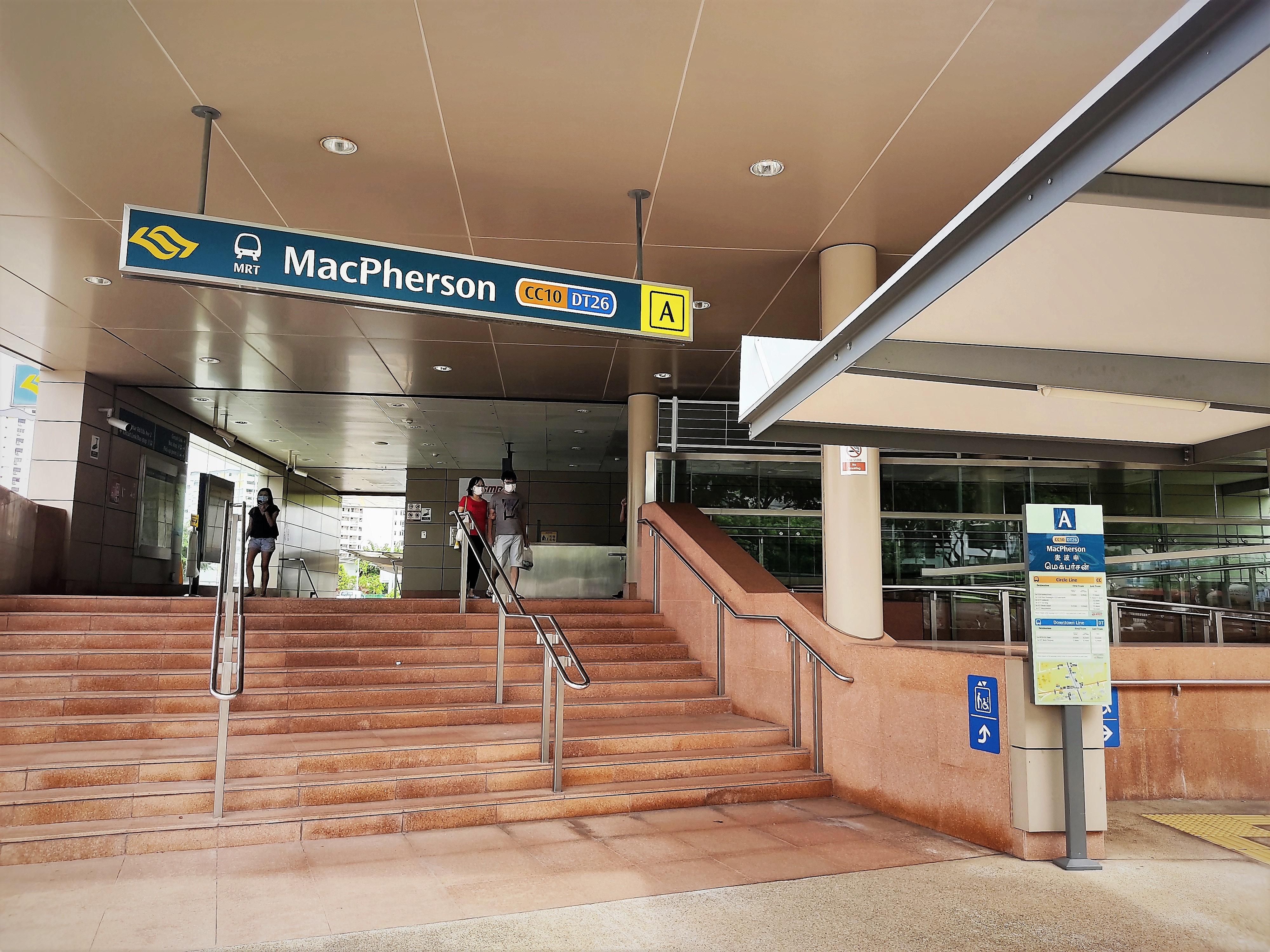 Exit A of MacPherson station